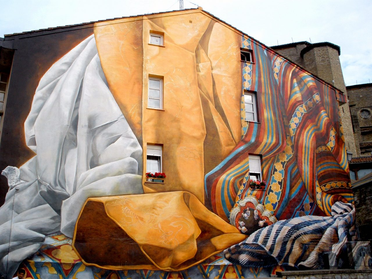 Mural 'Al hilo del tiempo' (2007), en la plaza de las Burullerías de Vitoria-Gasteiz. Imagen tomada el 1 de septiembre de 2010